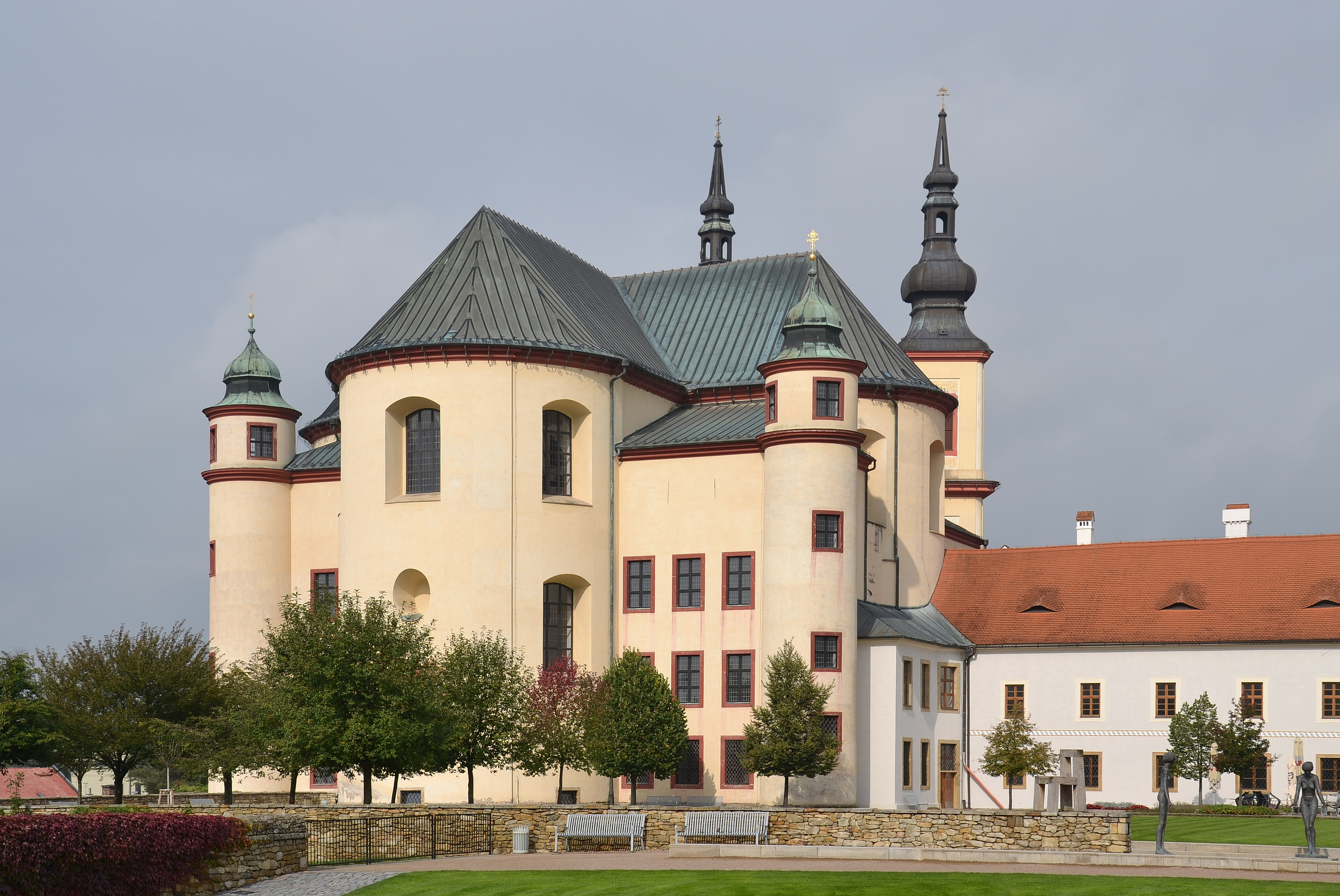 Church of the Finding of the True Cross in Litomyšl, Czech Republic